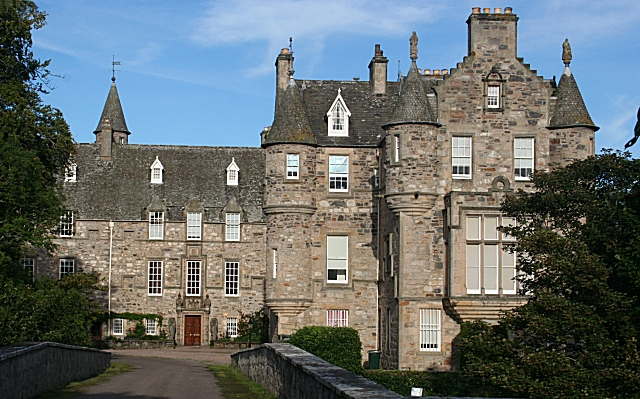 Cullen House, Cullen, Moray, Great Britain Cullen House was built by the Findlaters about 1600. It passed into the hands of the Earls of Seafield, and has been turned into several apartments.